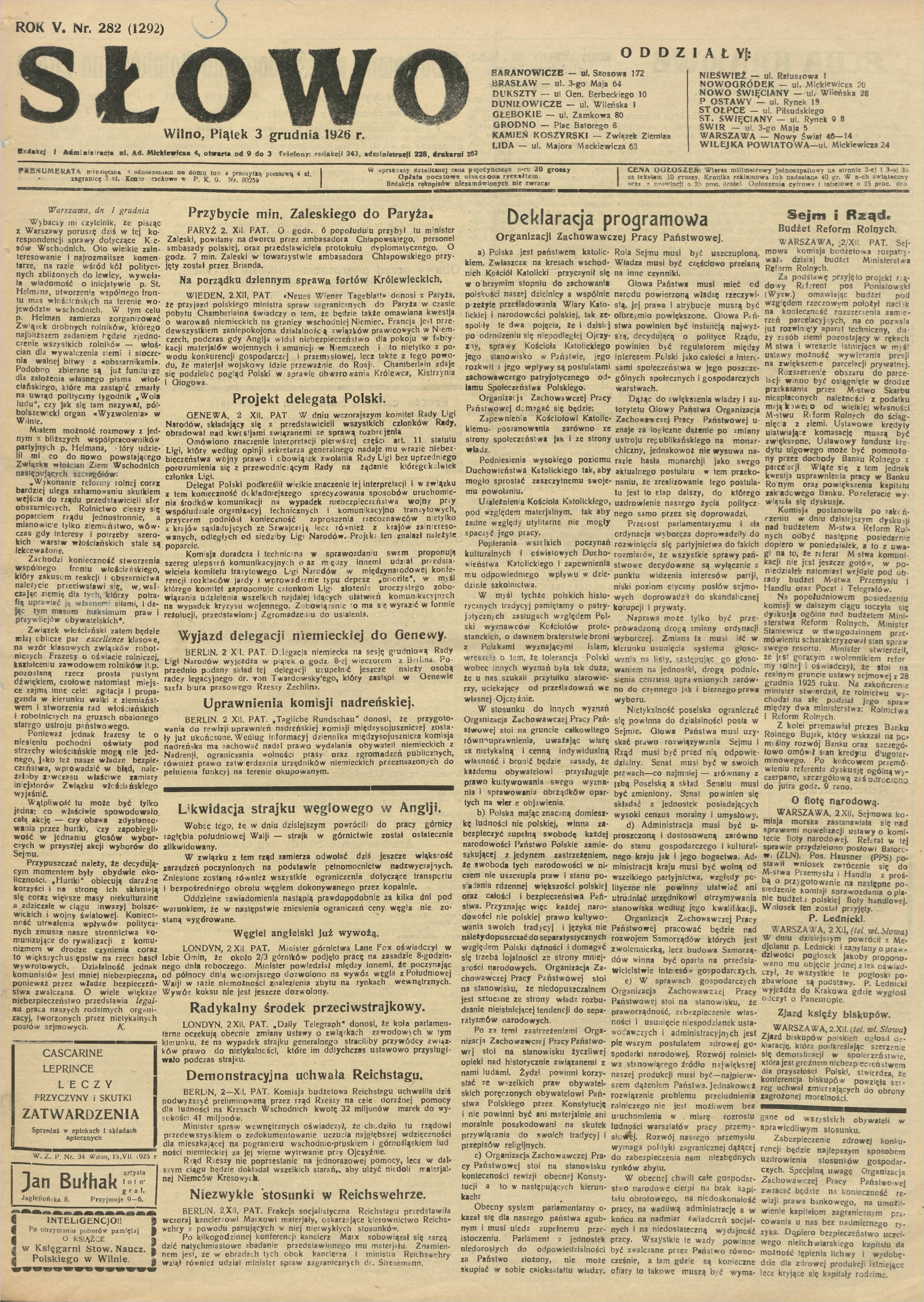 first page of newspaper "Słowo" (#282, 1926 AD), Poland. Stanisław Mackiewicz (1896-1966)'s article "The programm of the Organization of a Conservative State Work"